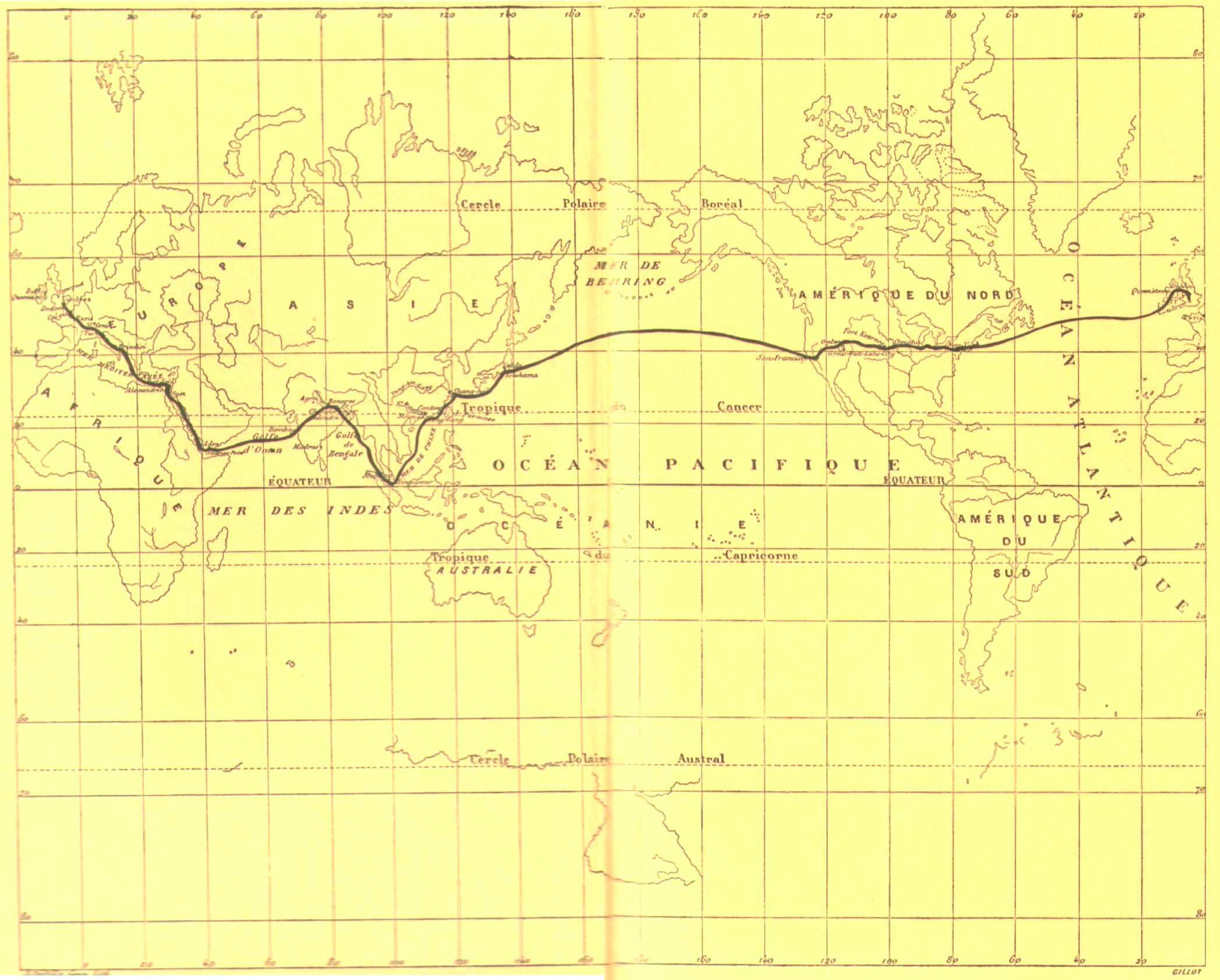 Original illustration from Alphons de Neuvill and Léon Benett from French edition novel of J. Verne "Around the World in Eighty Days".